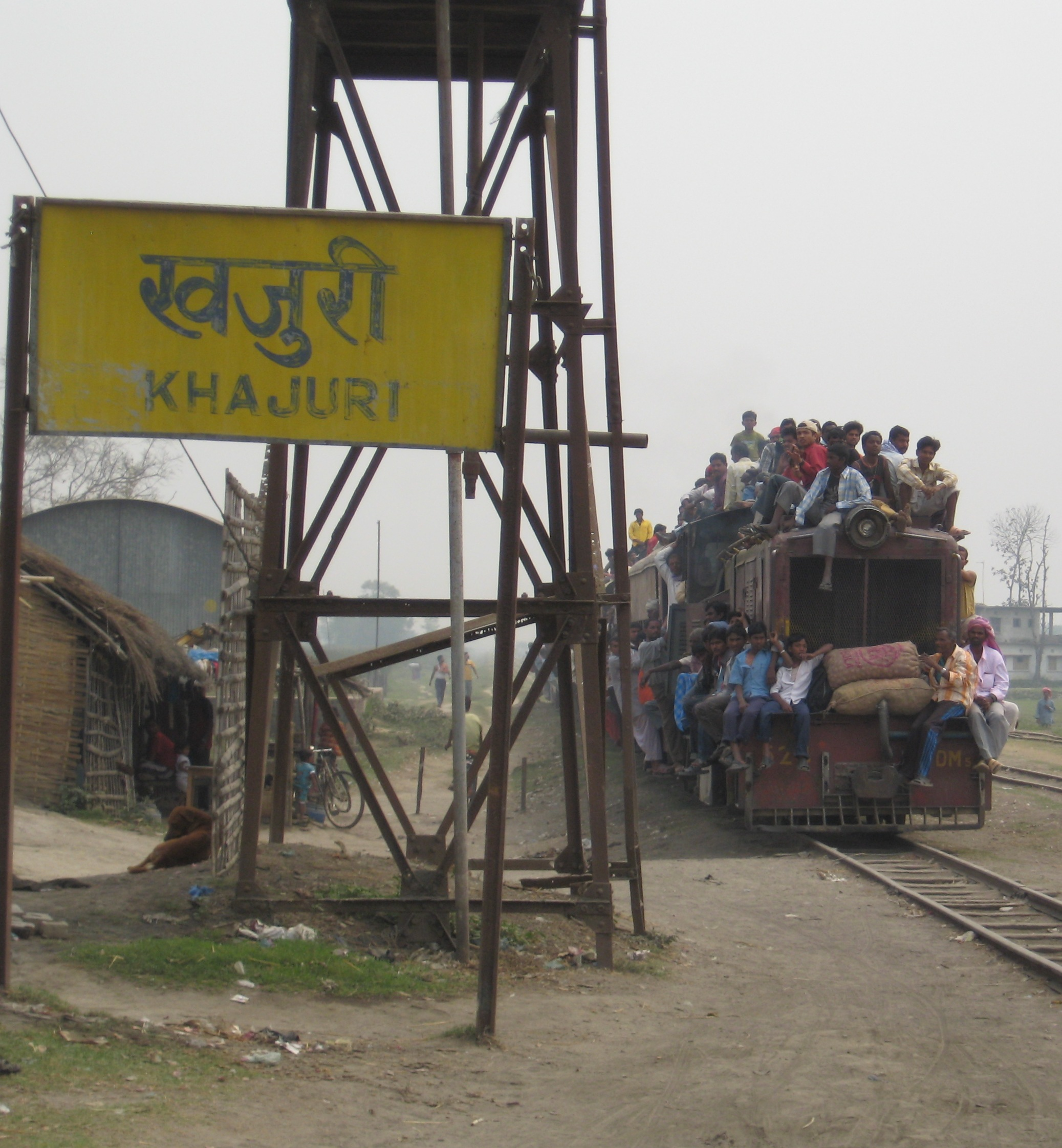 Diesel locomotive of Nepal Railways, stop in Khajuri. Object location 26° 38′ 31.00″ N, 86° 6′ 53.00″ E - OpenStreetMap - Proximityrama (Info)